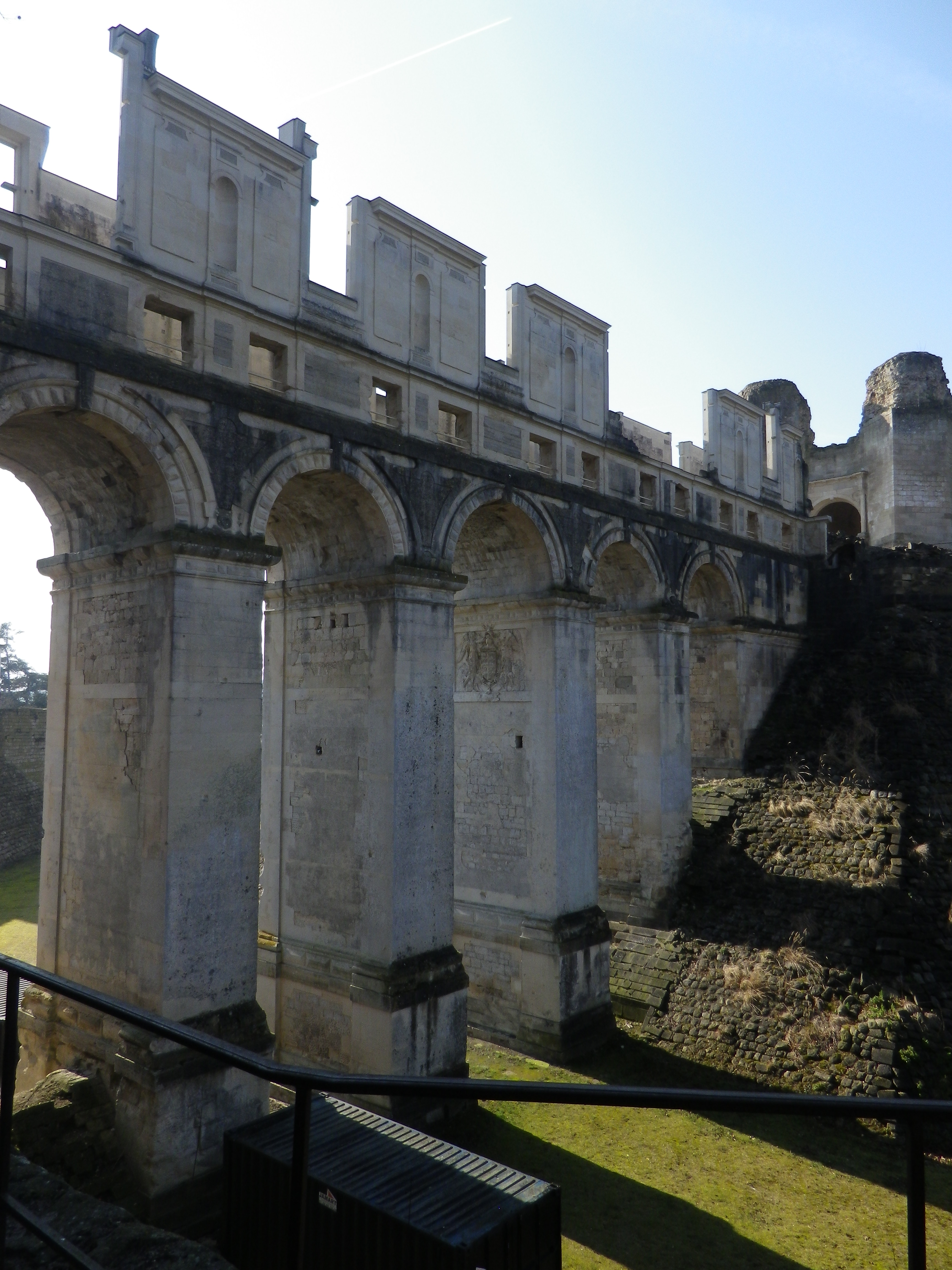 Castle of Fère-en-Tardenois. Bridge and entrance of the medievial castle